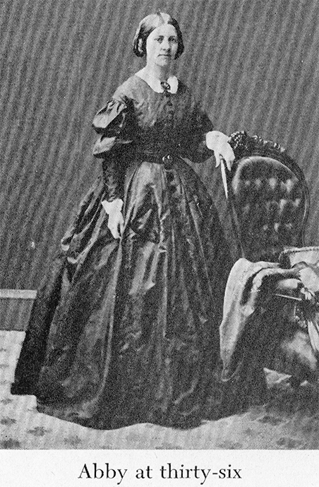 Abby Hutchinson Patton, 1865